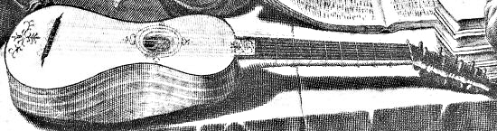 Baroque guitar,[1] Etienne Picart (1680) Original Spanish caption on source page is : “Vihuela : Grabado de Etienne Picart (1680)” See also category: Chitarra battente. (Chitarra Italiana) for round-back, beating guitar since Baroque era. References ↑ Alexander Batov (2006-04-20). The Royal College Dias - guitar or vihuela?. (The talk given at the Lute Society meeting in London on 16 April 2005). "A rather small sized vaulted-back guitar in the engraving by Etienne Picart (c. 1680) after the painting by Leonello Spada Concert (c.1615), Musée du Louvre, Paris"